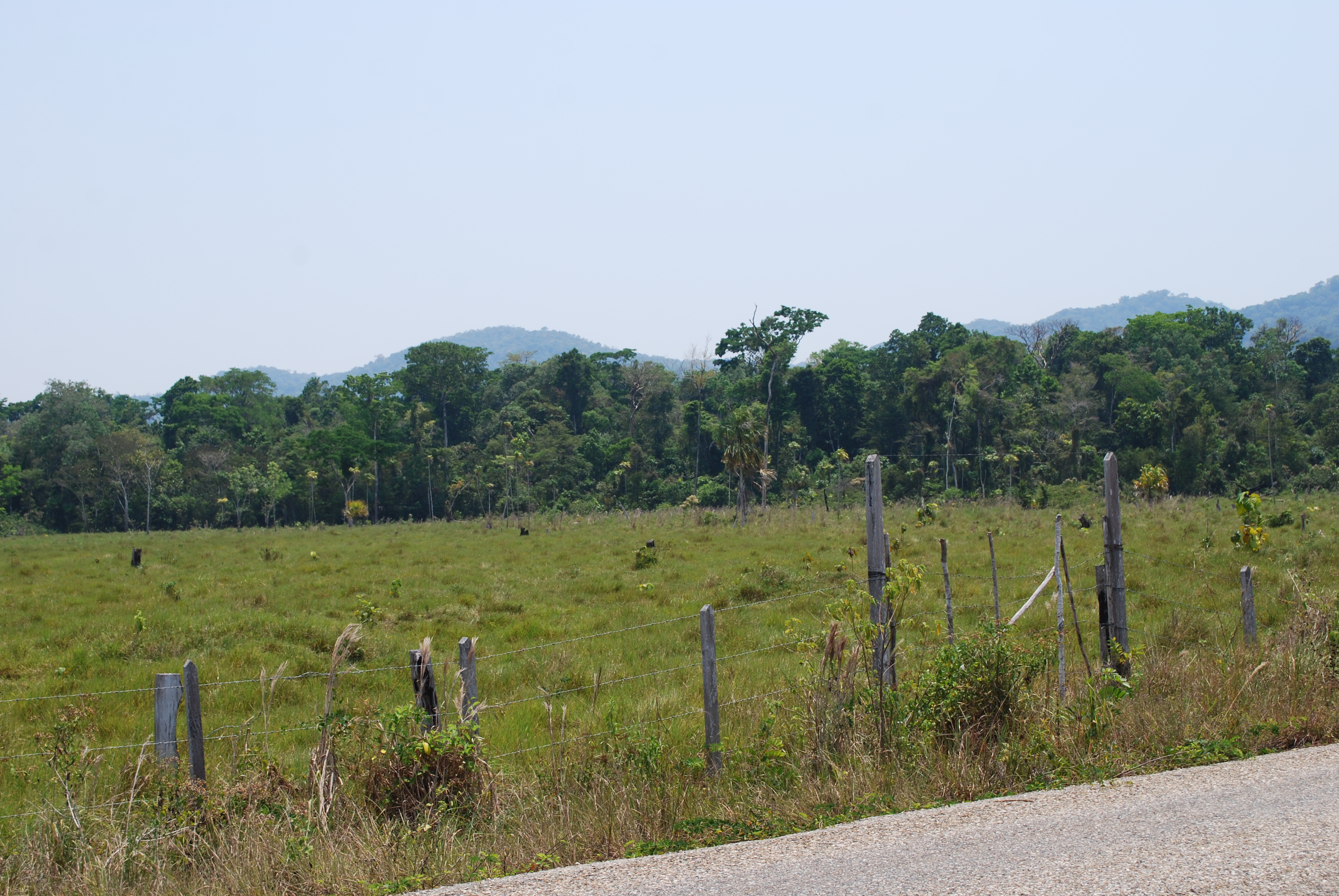 Field at the intersection of Chiapas highway and road to Frontera Corozal in Ocosingo, Chiapas, Mexico